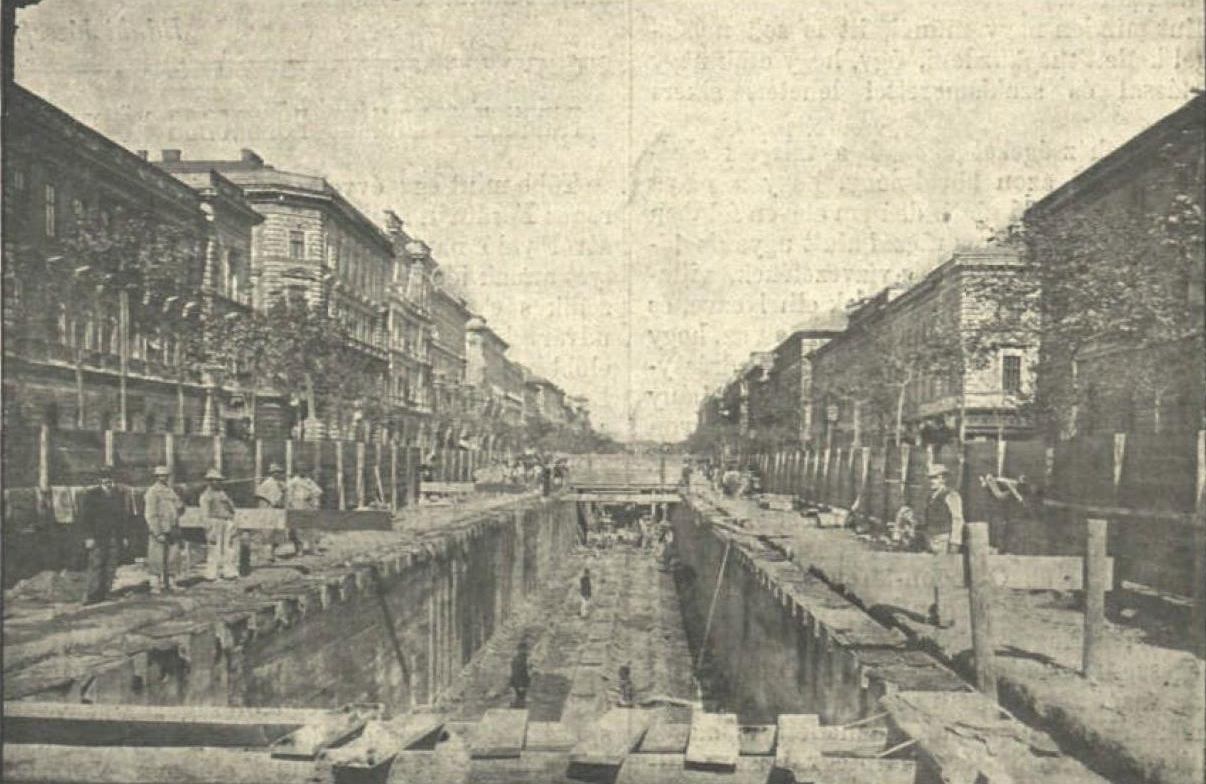 Construction of the first Hungarian underground line, 1896, Budapest